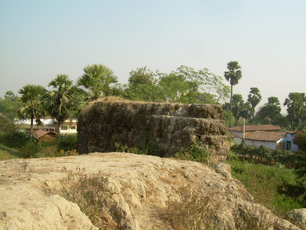 The picture shows one of the walls of the remains of the fort of Kol rulers of Sherghati. This place is popular by the name of garh among the locals.